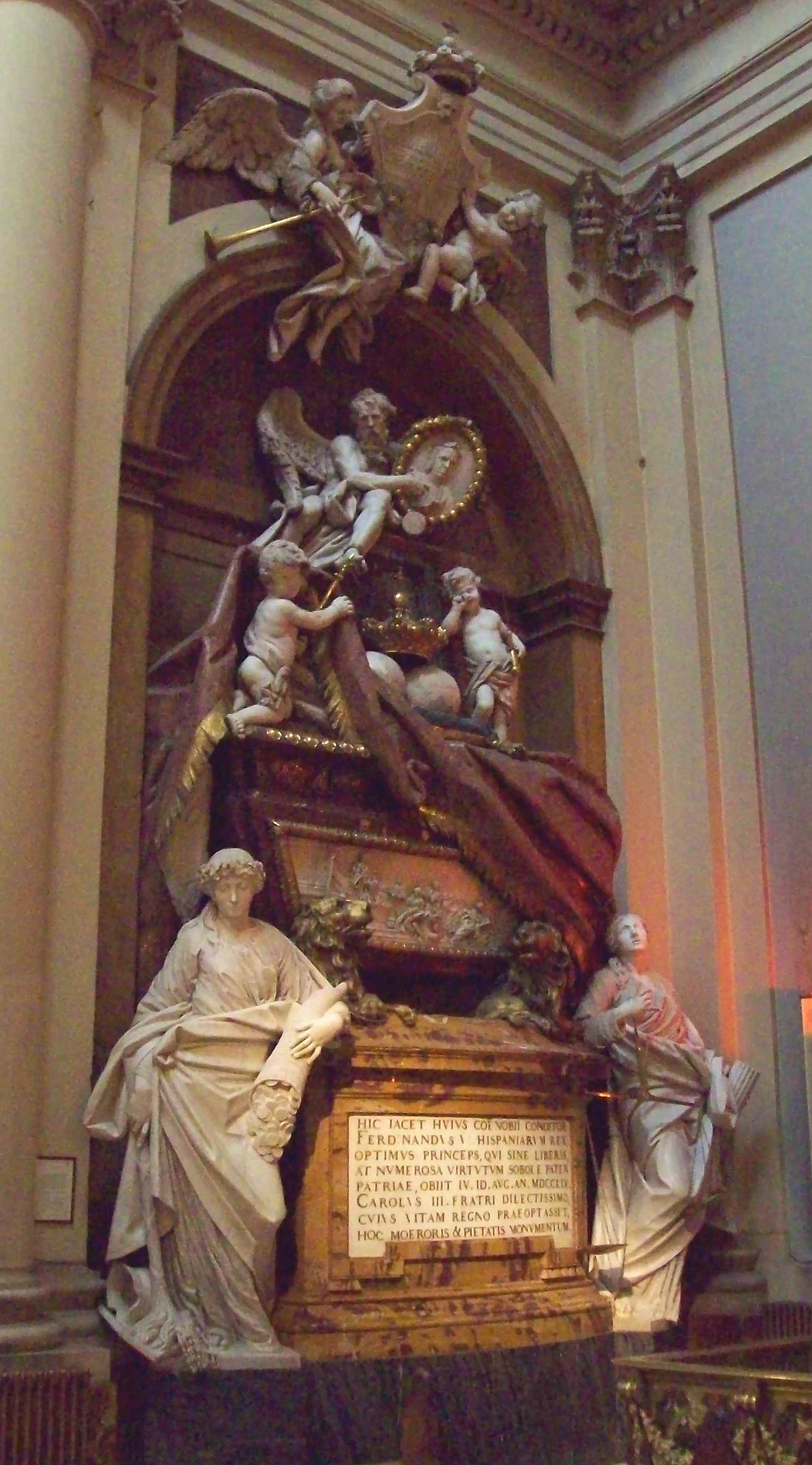 View of the mausoleum of king Ferdinand VI of Spain (1713–1759), at St. Barbara's Church in Madrid (Spain). It was designed by Francesco Sabatini and sculpted in marble and porphyry by Francisco Gutiérrez Arribas.